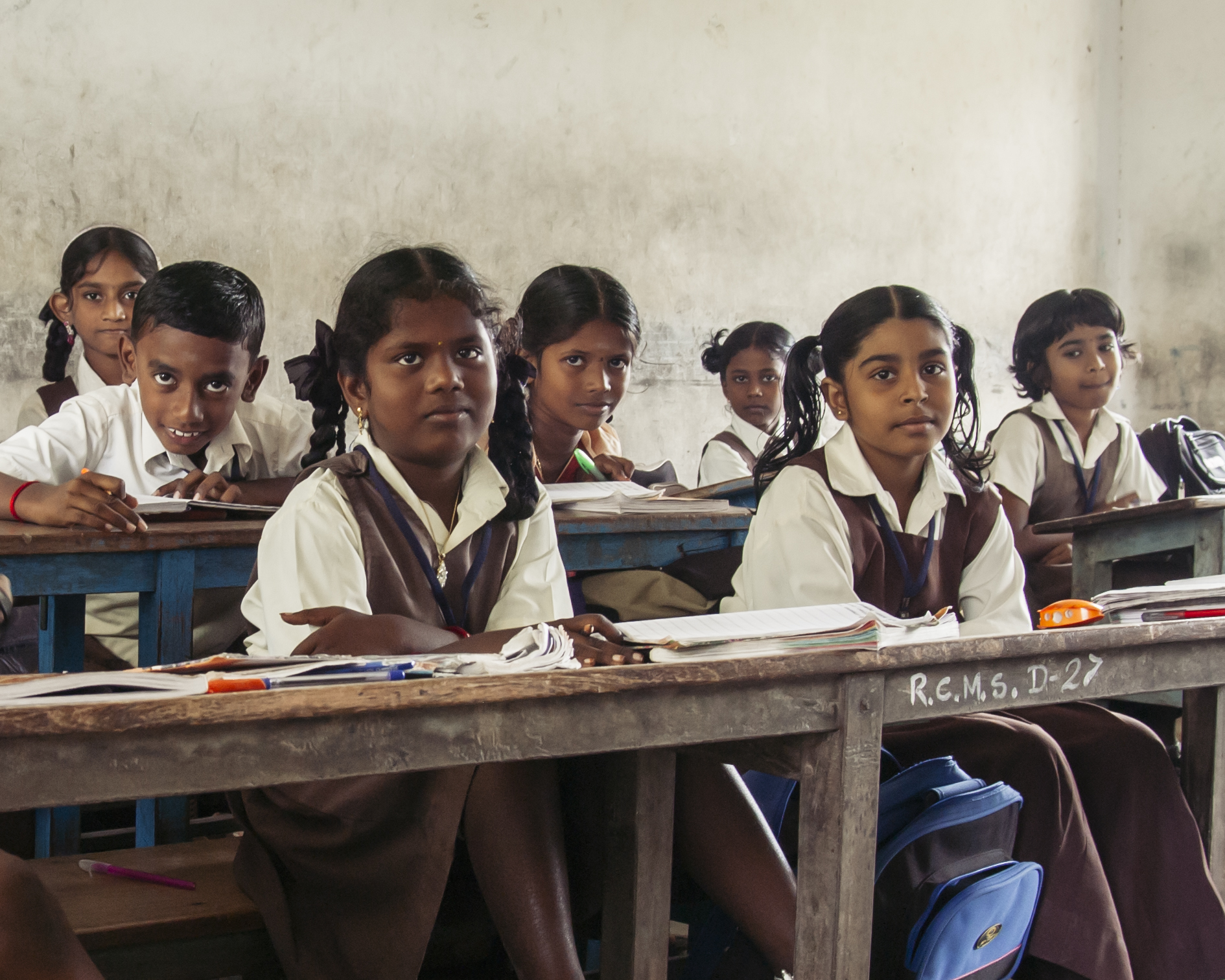 Children in an elementary school in Mayiladuthurai